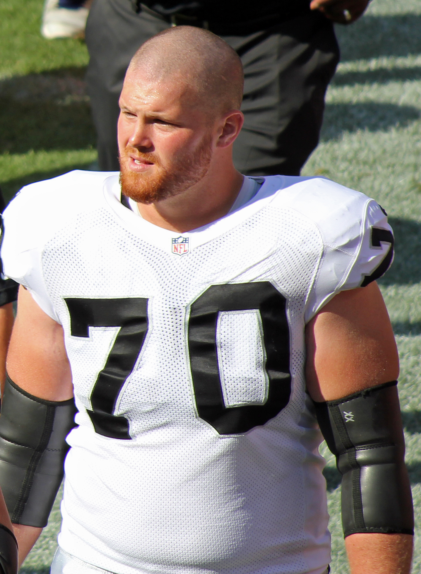 Tony Bergstrom, a player on the National Football League.